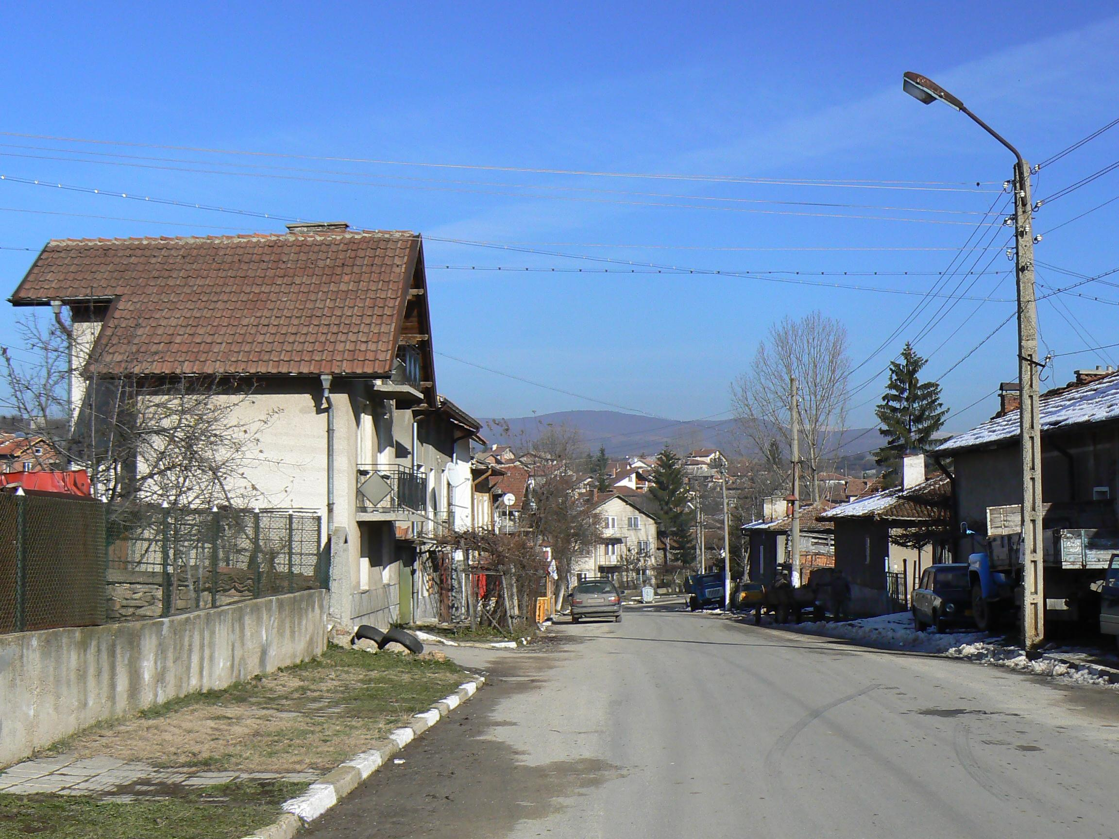 View from village Golema Rakovitsa, Bulgaria